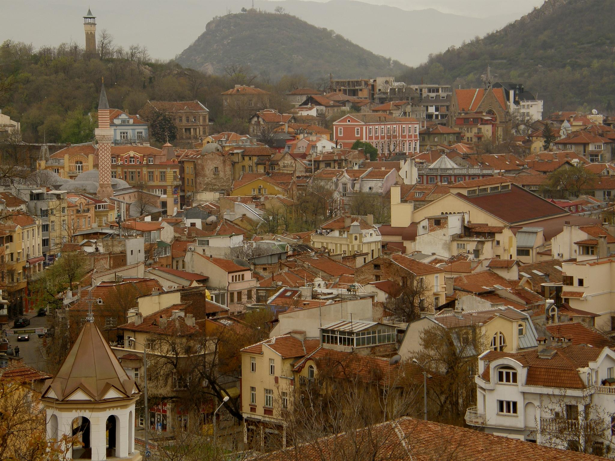 This is a picture depicting the Old City of Plovdiv, notably including the Dzhumaya Mosque among the cities three hills.